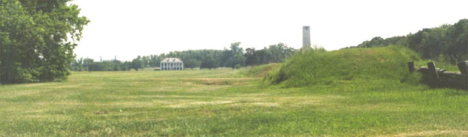 View of Chalmette Battlefield in Louisiana, with house and monument in background.